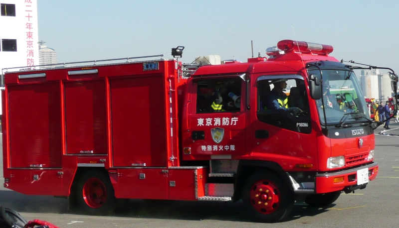 Isuzu Forward fire engine.